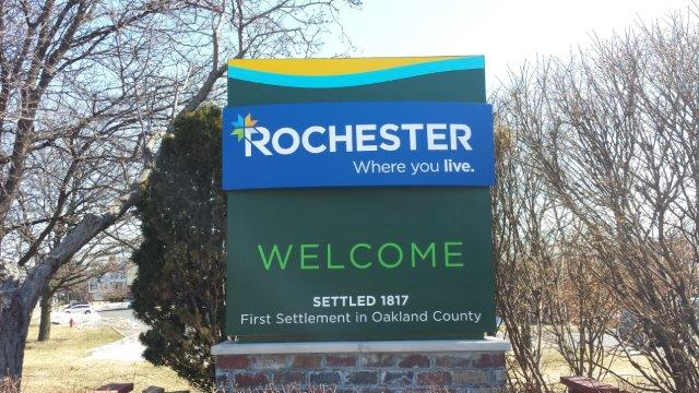 Rochester, Michigan welcome sign.